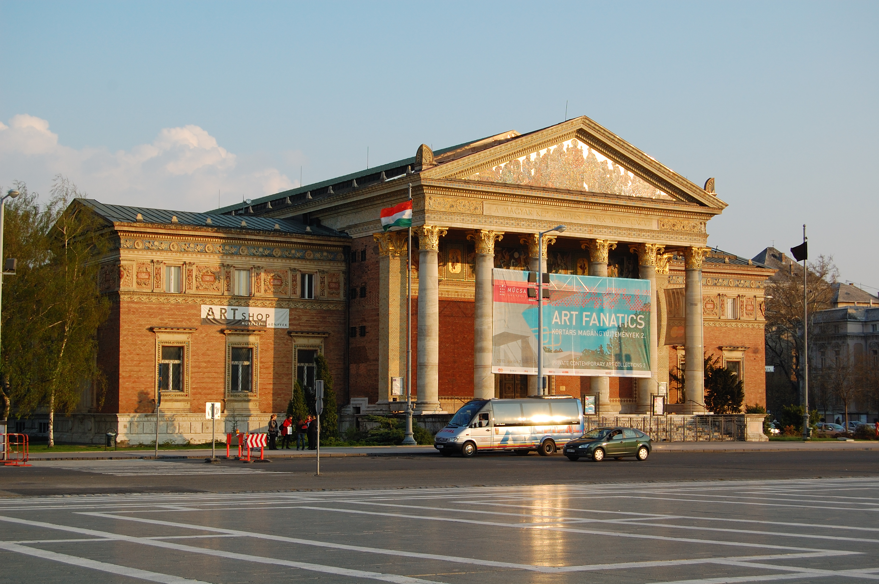 Palace of Art in Budapest.